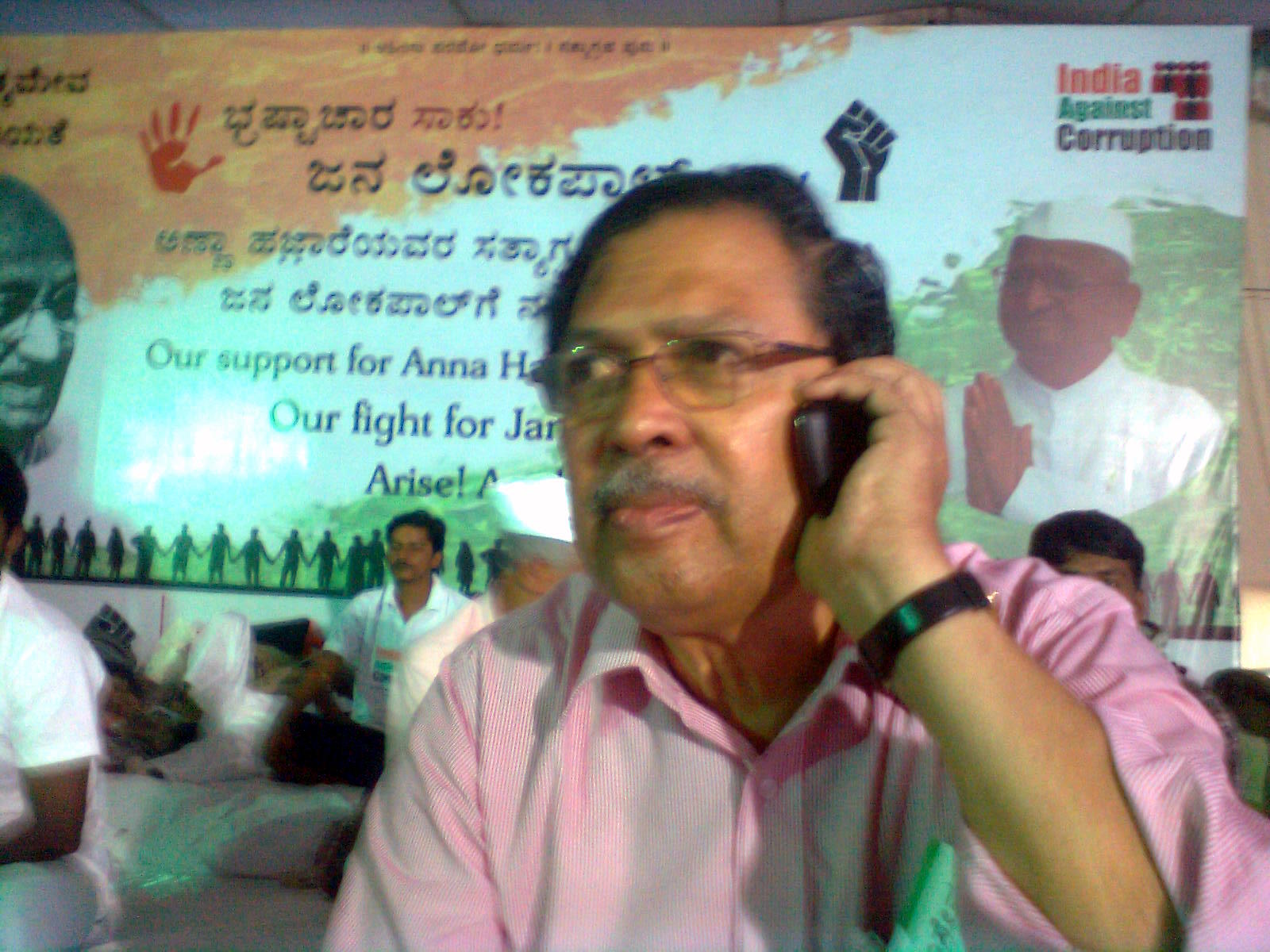 This photo was captured by me with Mr. Santosh Hegde's permission at Freedom Park Bangalore on 26th August 2011, when he came there to support Mr. Anna Hazare's protest for strong Jan Lokpal bill.